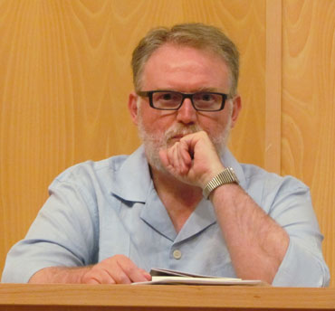 Spanish writer Mario Pérez Antolín